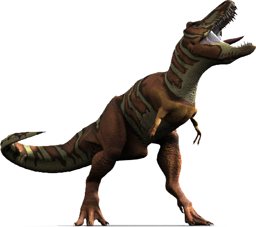 Tyrannosaur roar